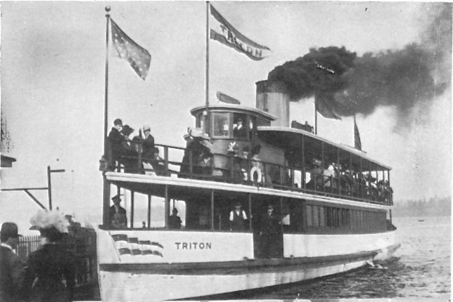 Triton, Lake Washington steamboat, built 1906.